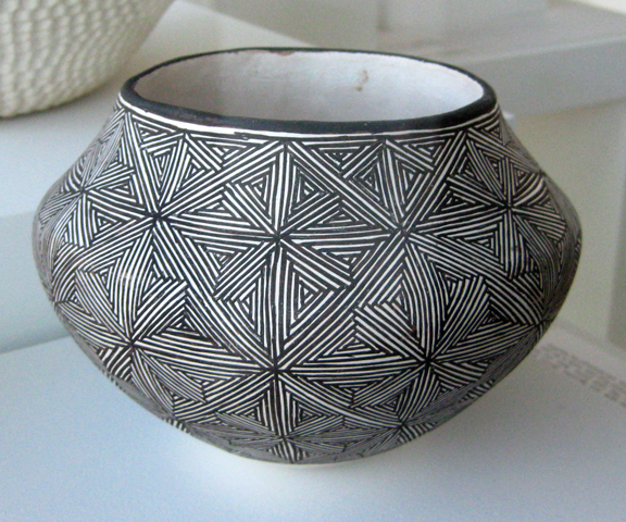 Fineline ceramic jar by Lucy Martin Lewis (1898–1992, Acoma Pueblo), made ca. 1960–1970s. Collection of the Fred Jones Jr. Museum.